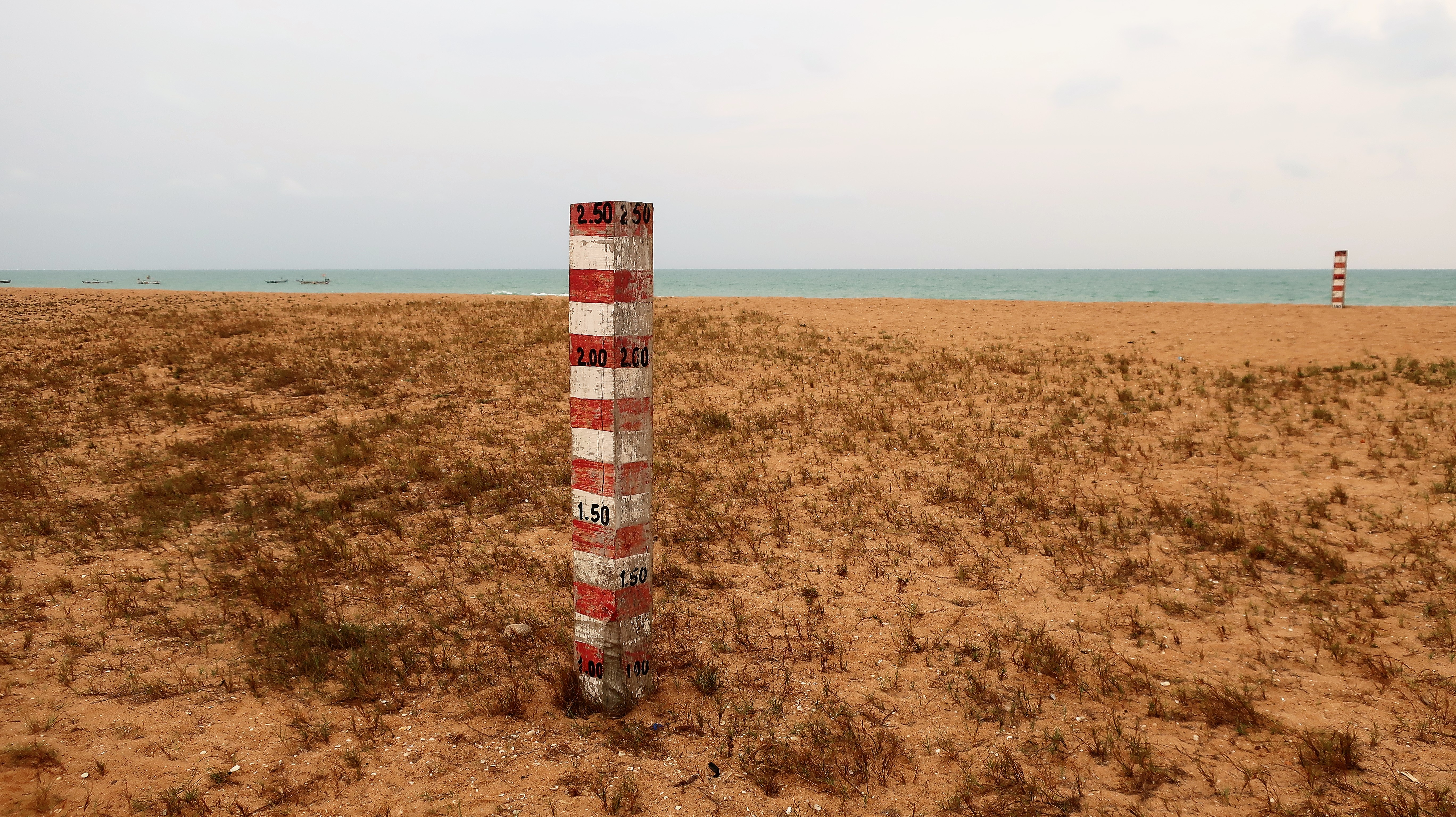 Two poles with 10 cm indicators on the beach, near the old transposed village of Grand-Popo, Benin.